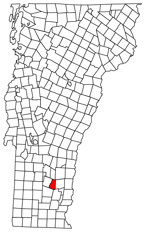 Description: Map of Vermont towns with Windham highlighted Source: Map created by Jared C. Benedict on 26 March 2004. Copyright: © Jared C. Benedict.